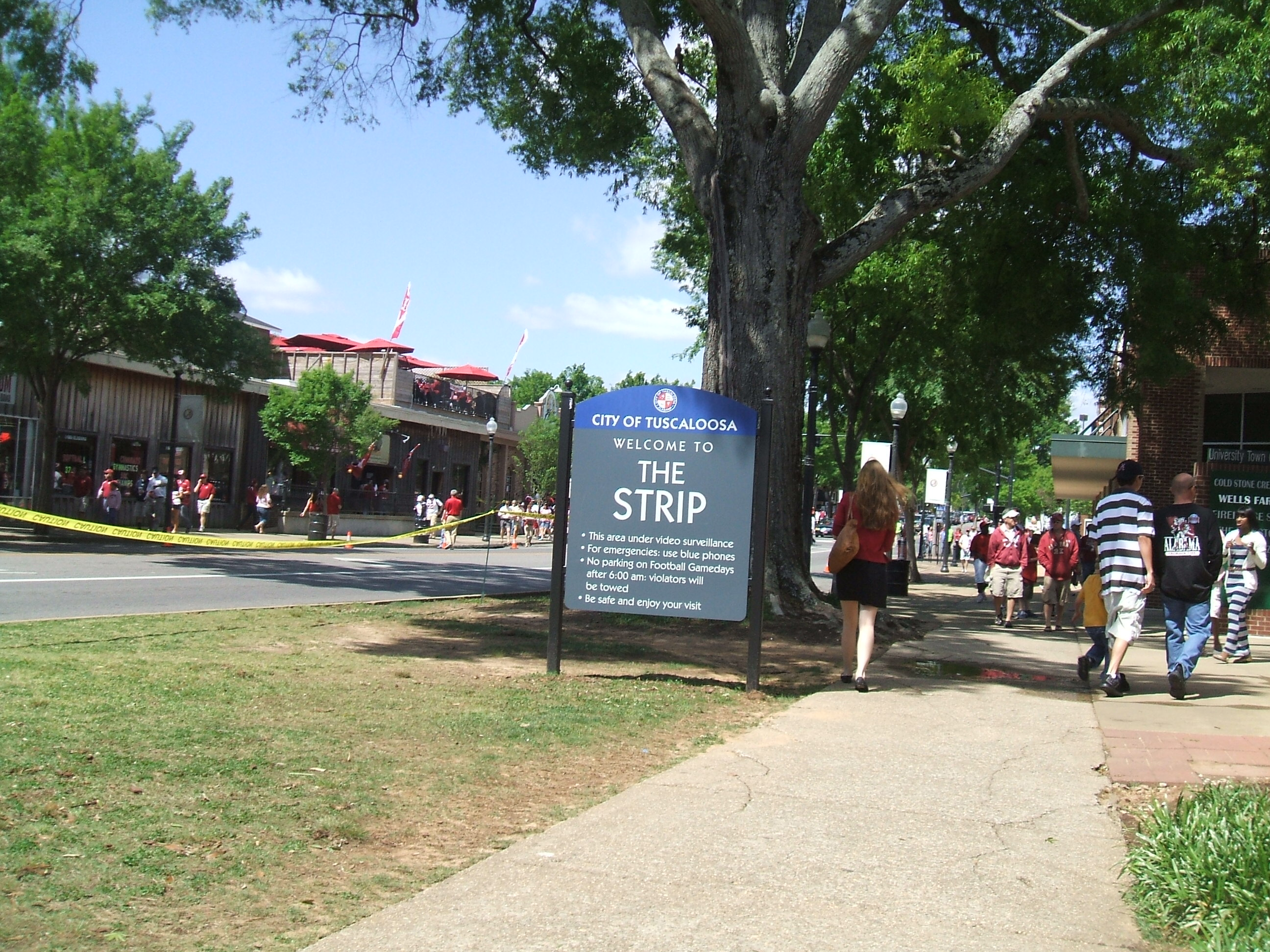 The Strip in Tuscaloosa, AL.